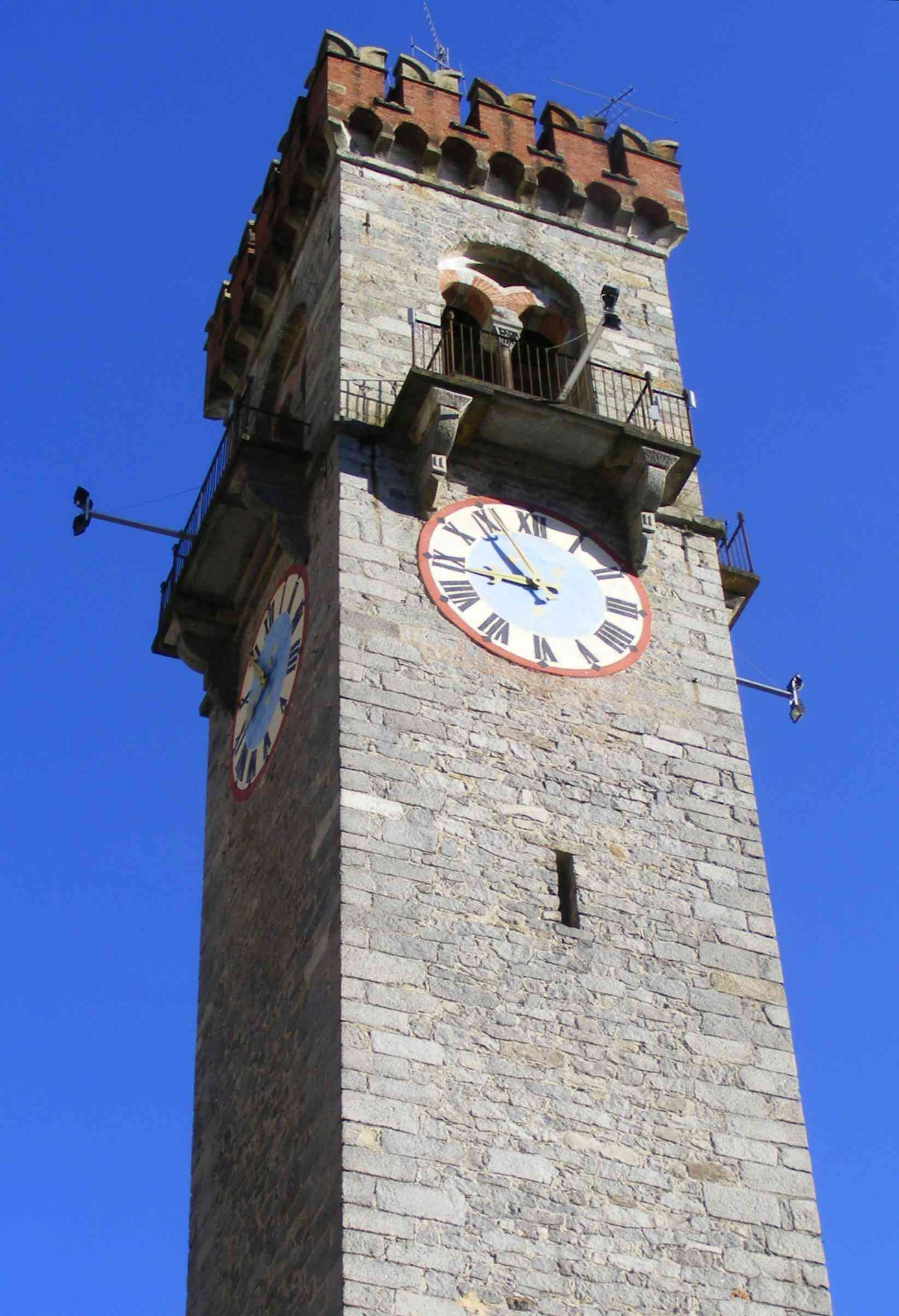 Rosazza (BI, Italy): clock tower